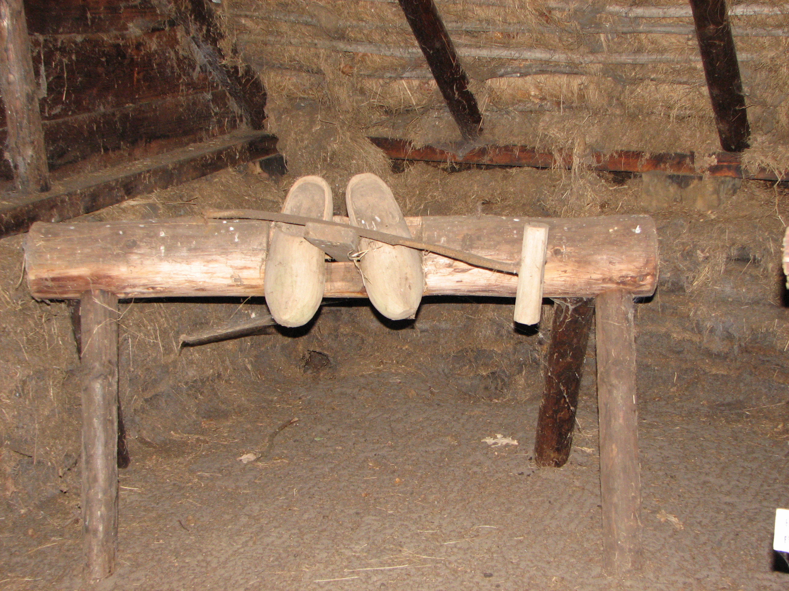 Making of Clogs